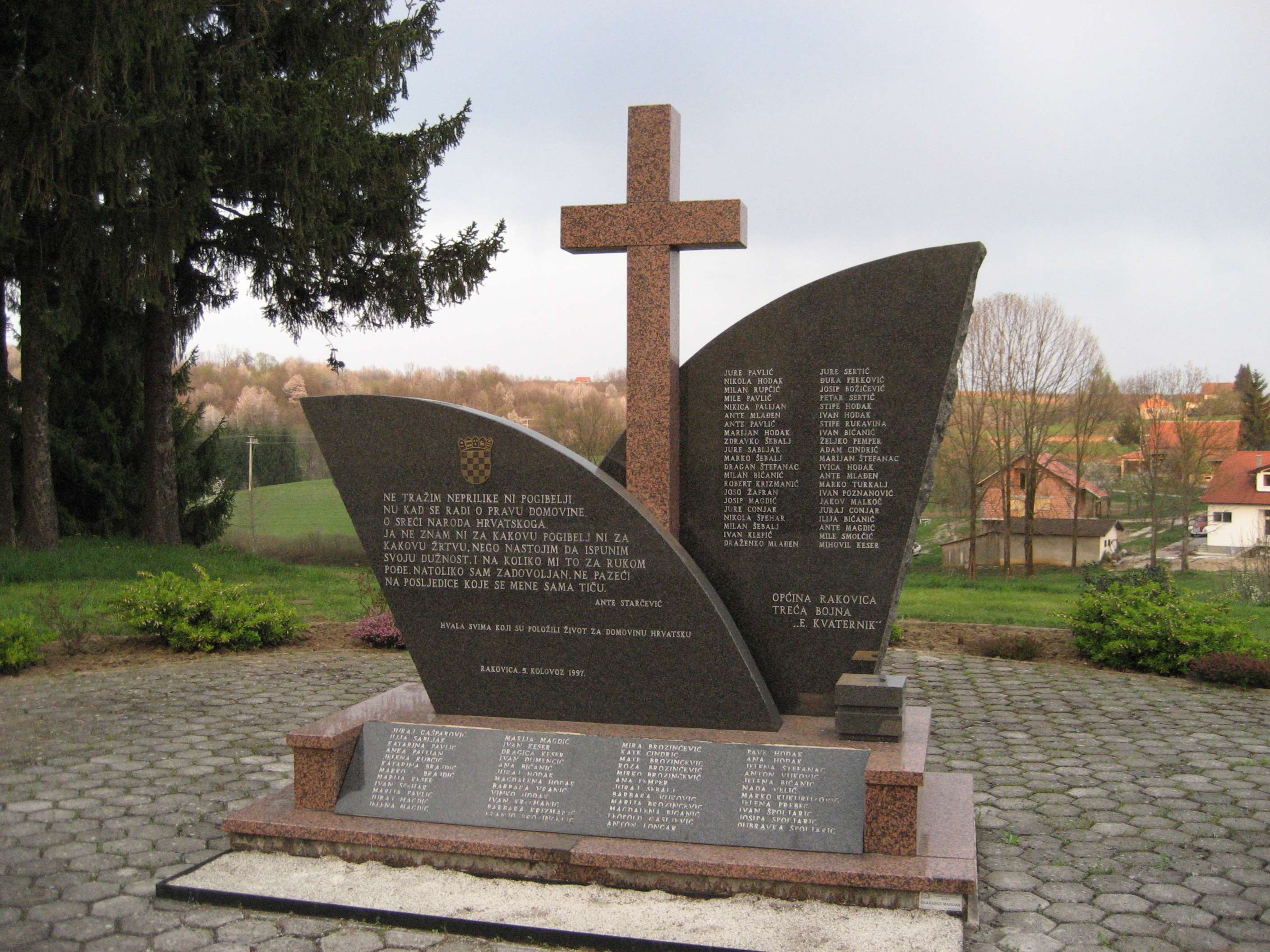 Memorial to the defenders of Rakovica